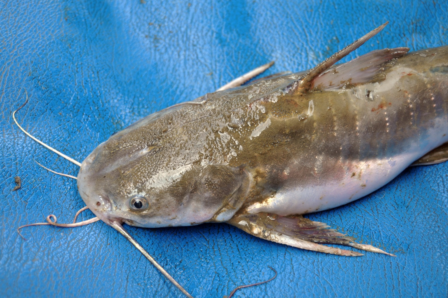 Hexanematichthys sagor, from the estuarine of Banyuasin River, South Sumatra, Indonesia. Head close up.